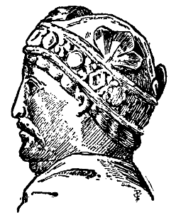 Carolus Magnus. After the head of a contemporary statue in Musée Carnavalet, Paris